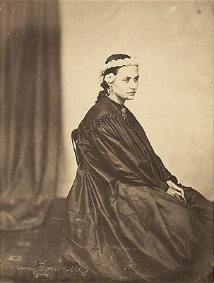 The Princess of Joinville (Isabelle Vahinetua Shaw), daughter-in-law of Queen Pomare lV. 1869/70. Paul-Emile Miot